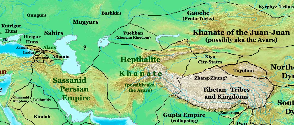 Adapted from work by Thomas Lessman